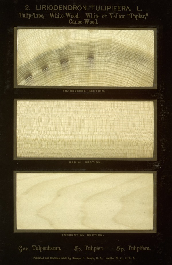 Tulipwood sections from Romeyn Beck Hough's fourteen-volume work The American Woods, a collection of over 1000 paper-thin wood samples representing more than 350 varieties of North American tree.